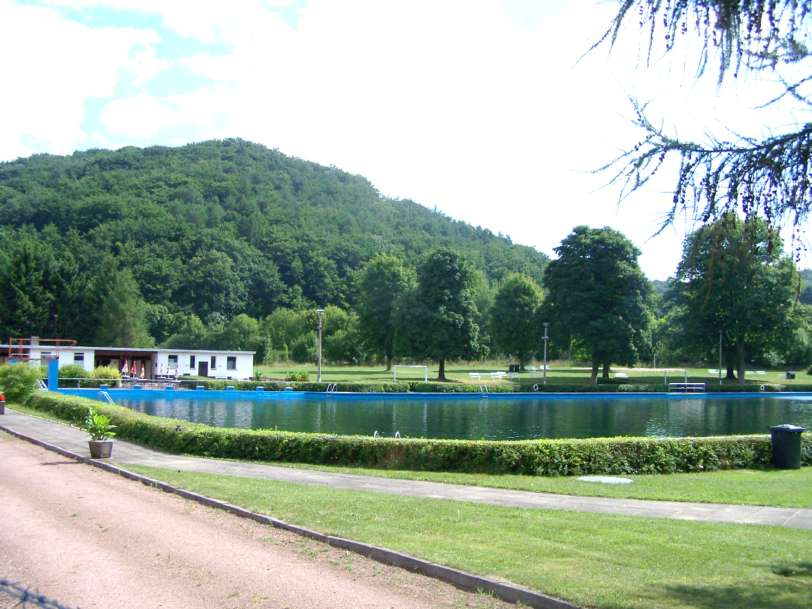 The spa in Thal.